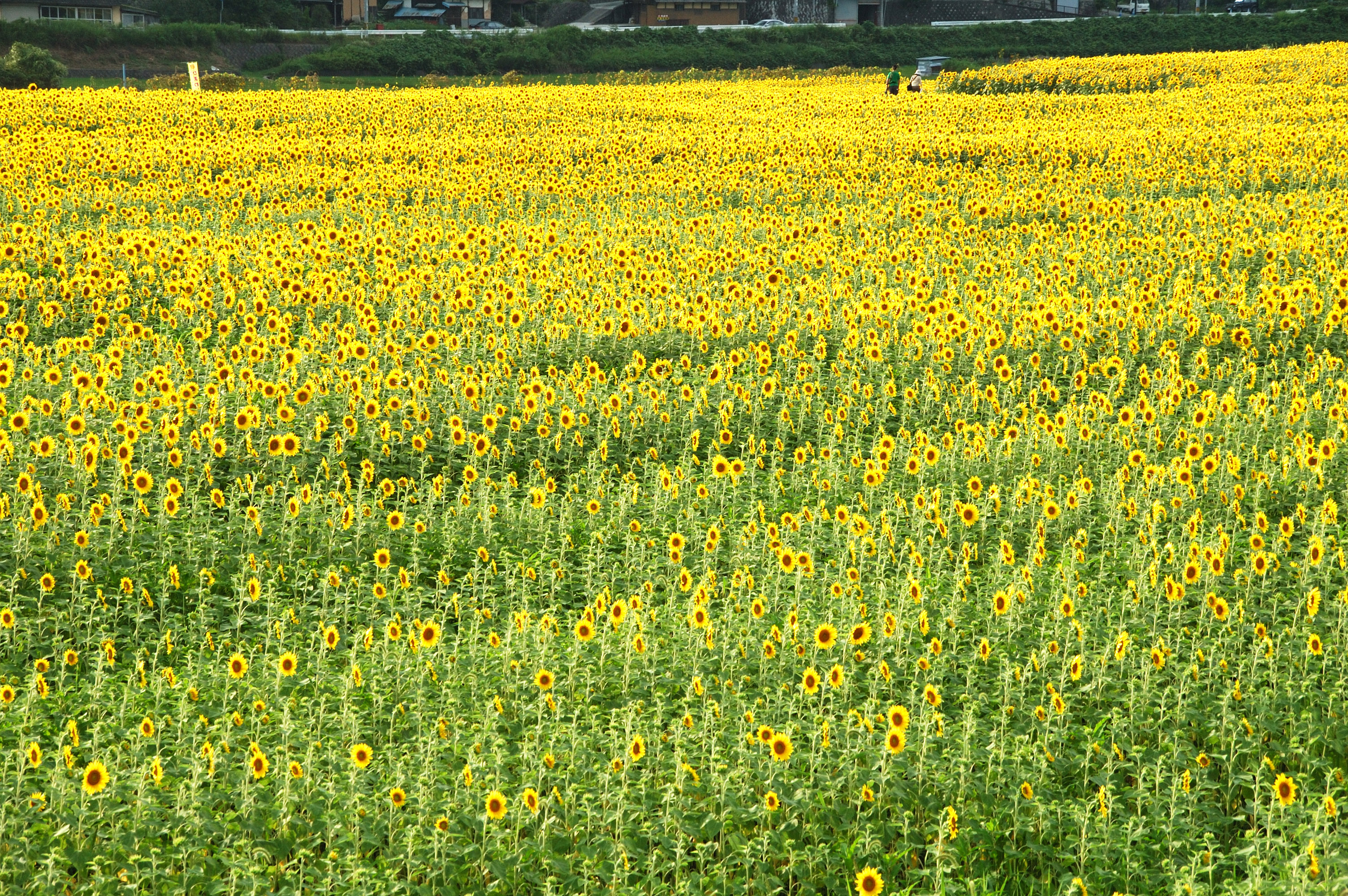 Sunflower festival of Sayo-cho,Hyogo Prefecture.2008